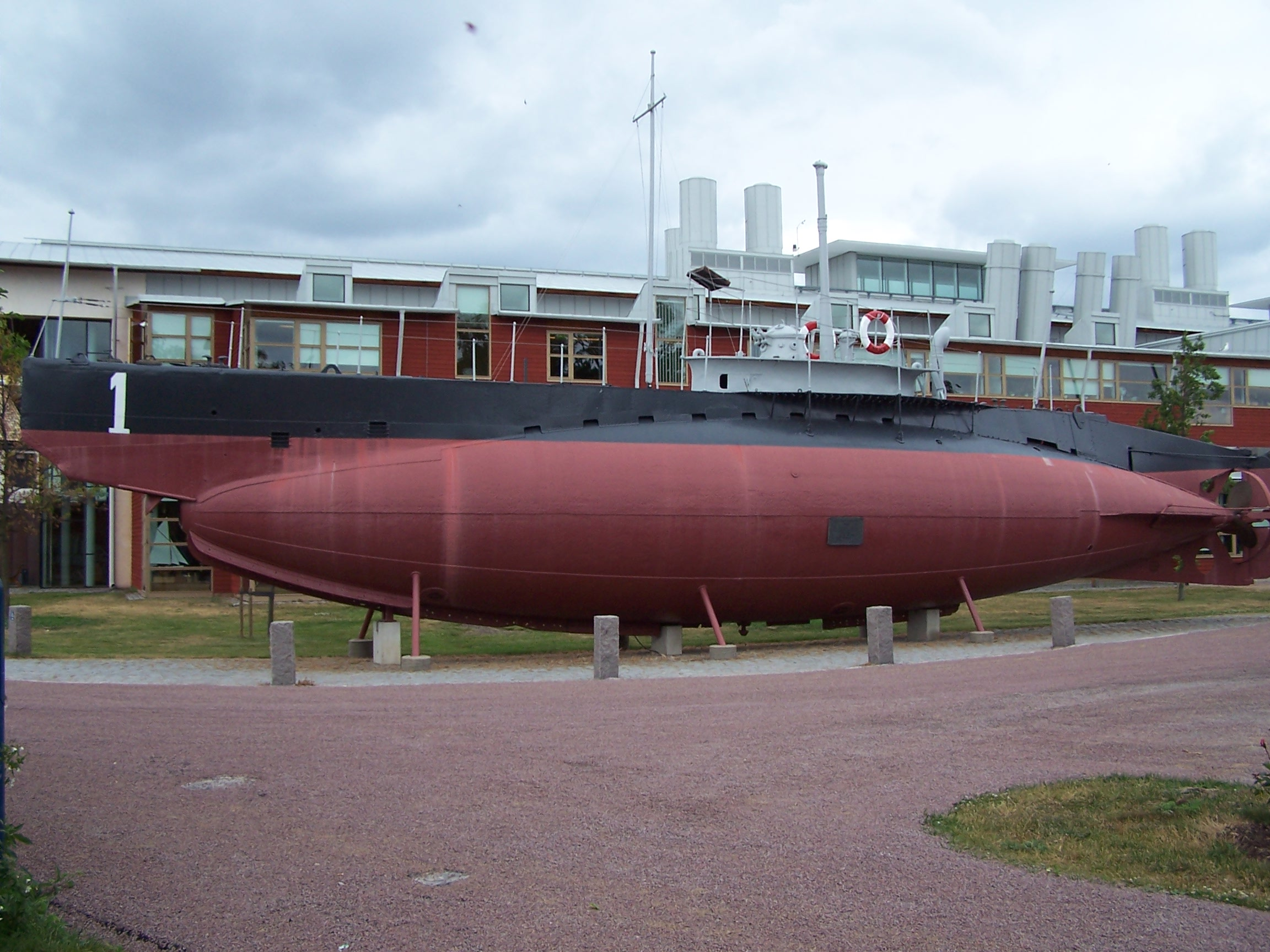 Swedish navys first submarine - Hajen 1 (The Shark 1). Today shown outside Marinmuseum (Naval museum) in Karlskrona.